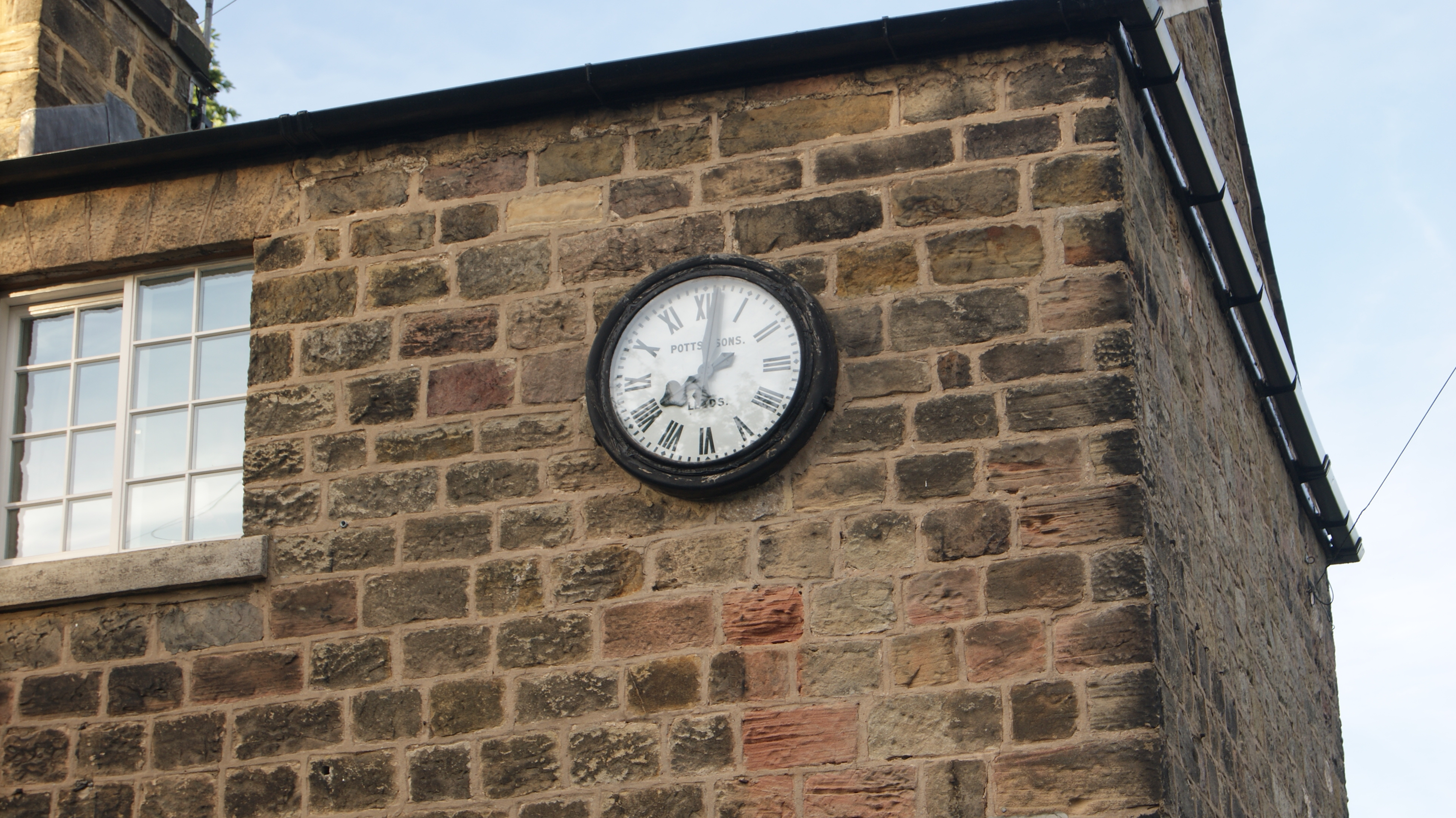 Potts of Leeds clock, Cottage, Main Street, East Keswick, West Yorkshire. Taken on the evening of Friday the 8th of July 2016.